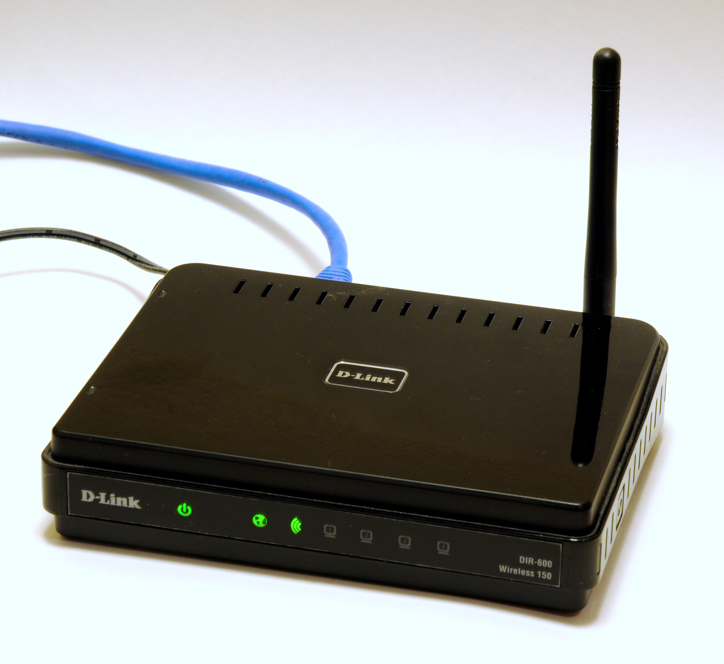 Wireless Router from D-Link